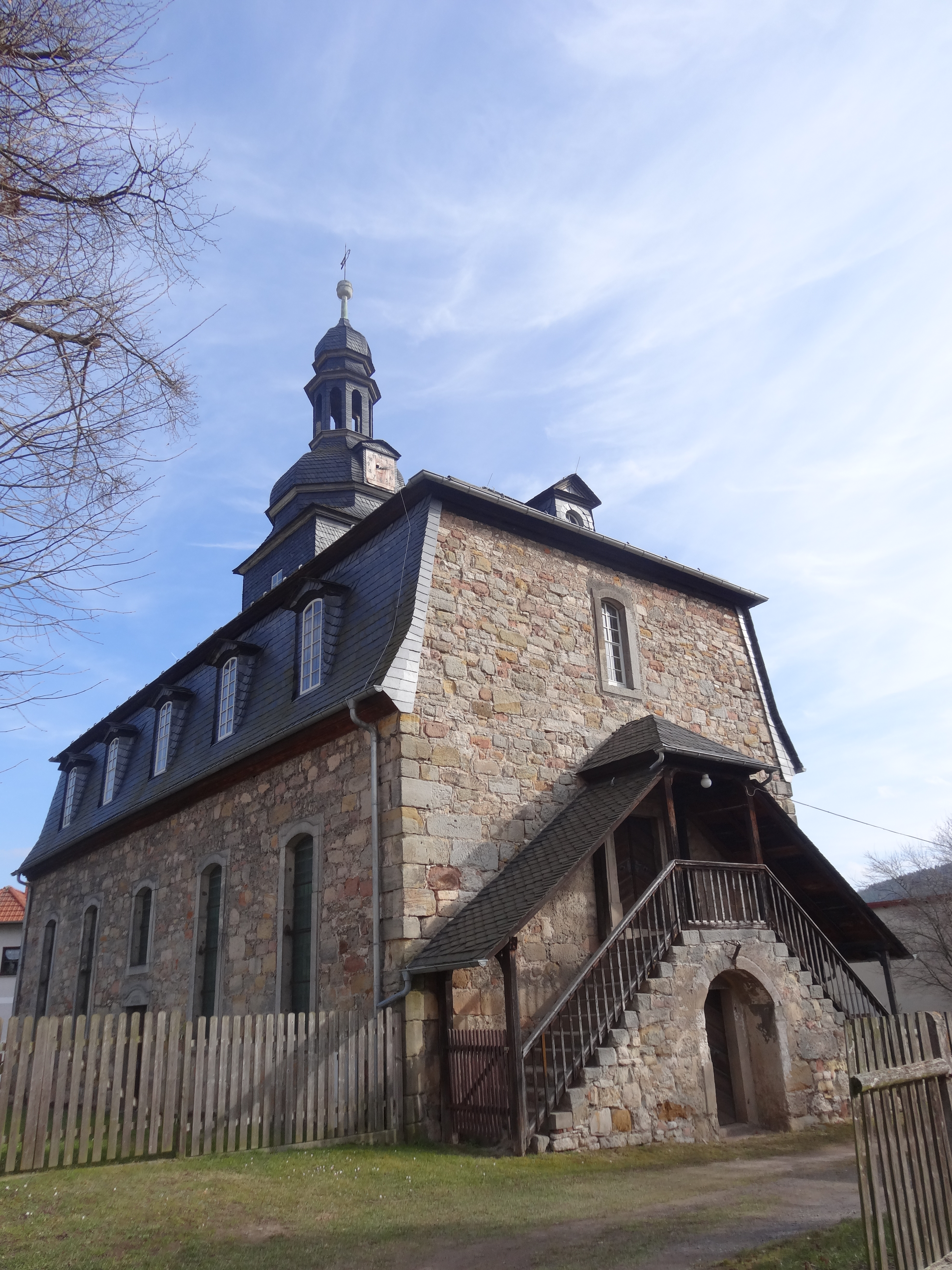 Church in Eichfeld (Rudolstadt), Thuringia, Germany